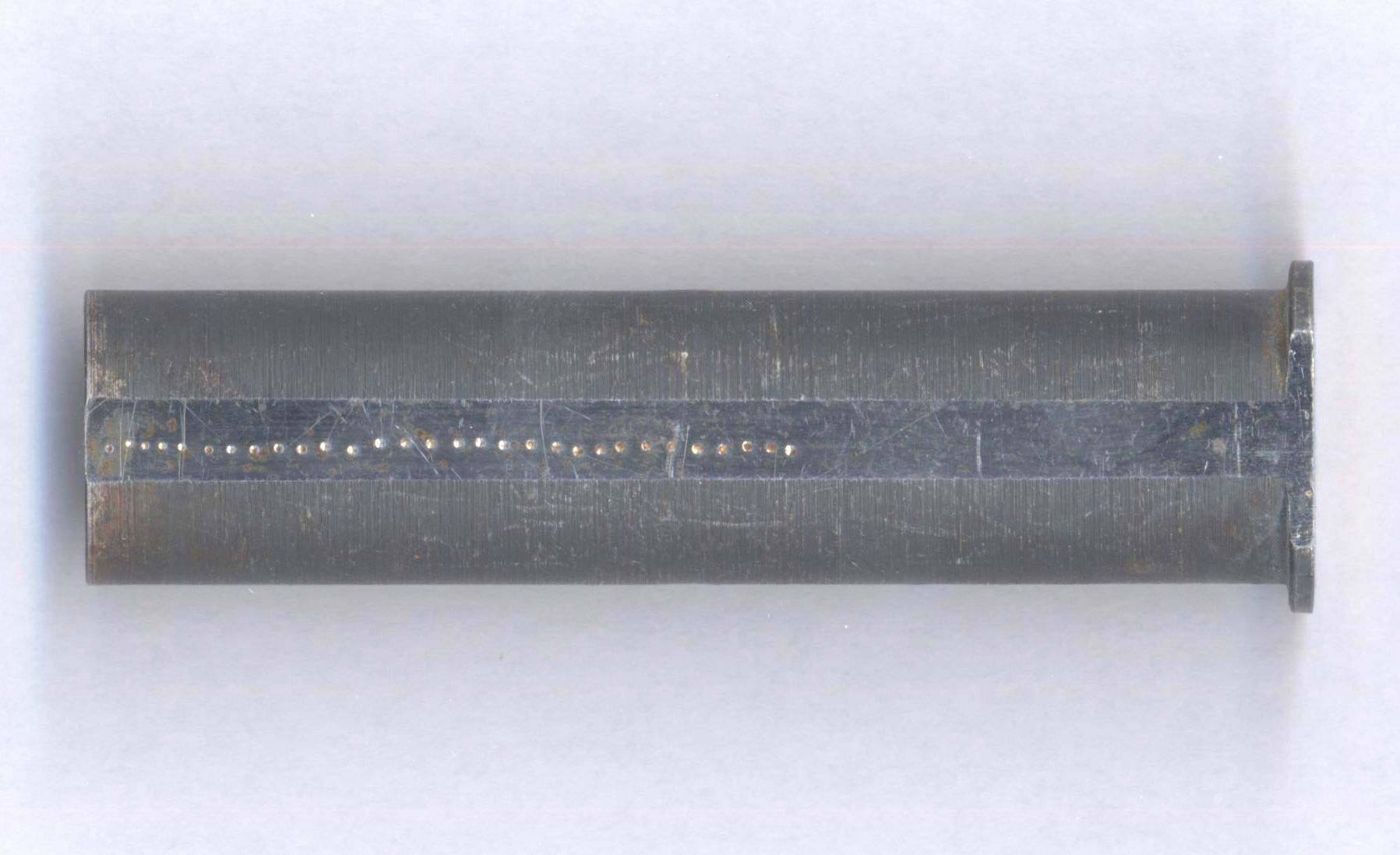 Quenching sample (Jominy),hardness tests